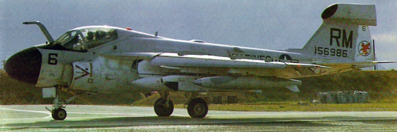 A Grumman EA-6A Intruder ECM-aircraft (BuNo 156986) of U.S. Marine Corps composite reconnaissance squadron VMCJ-1 at Da Nang, South Vietnam in June 1970.